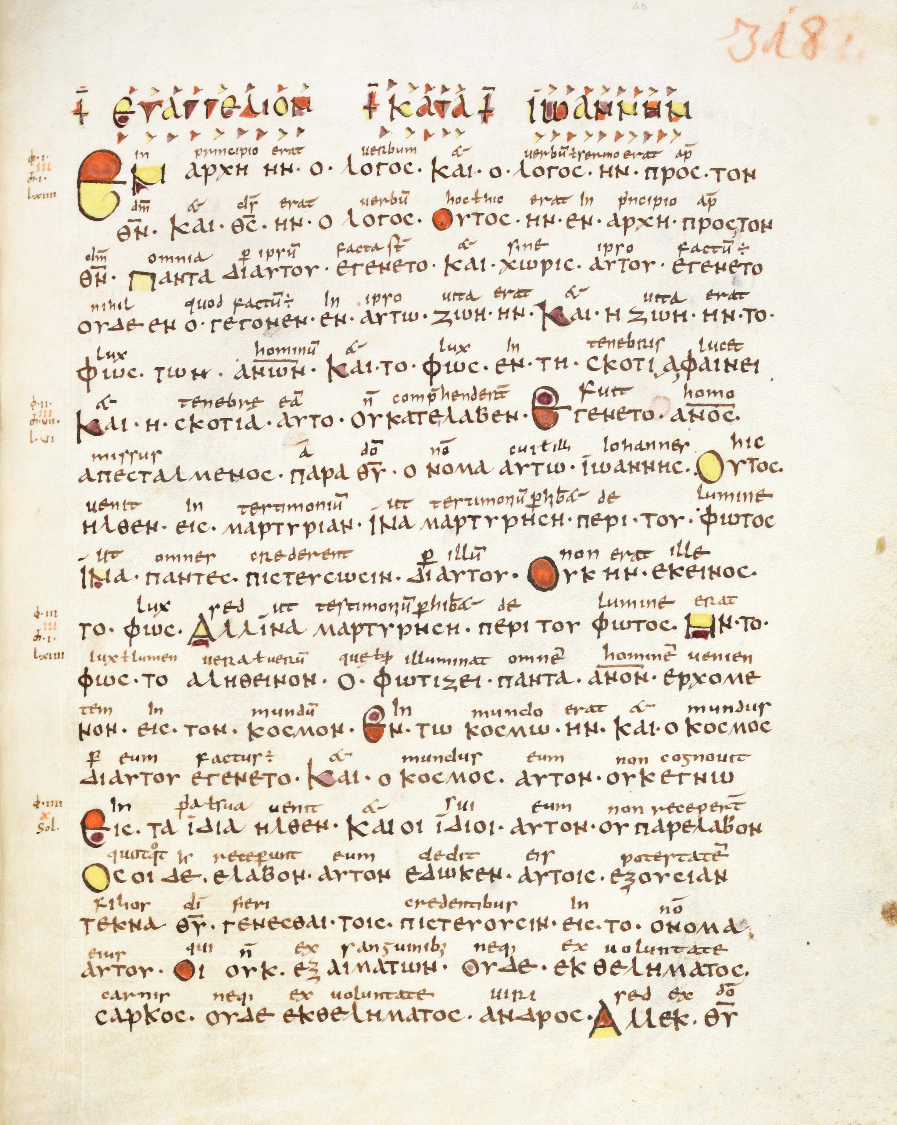 the beginning of the Gospel of John